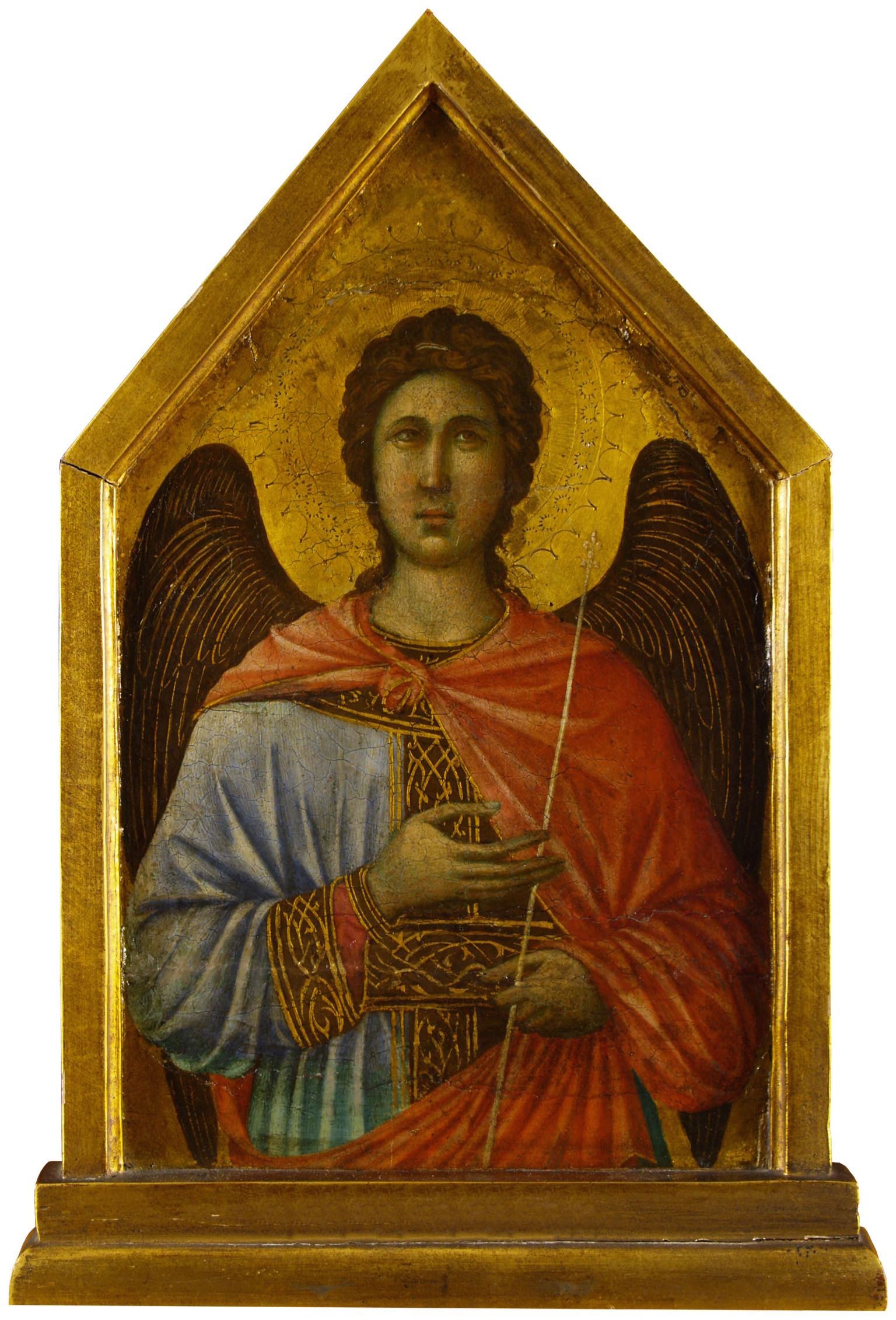 Separated panel from the famous Maestà.